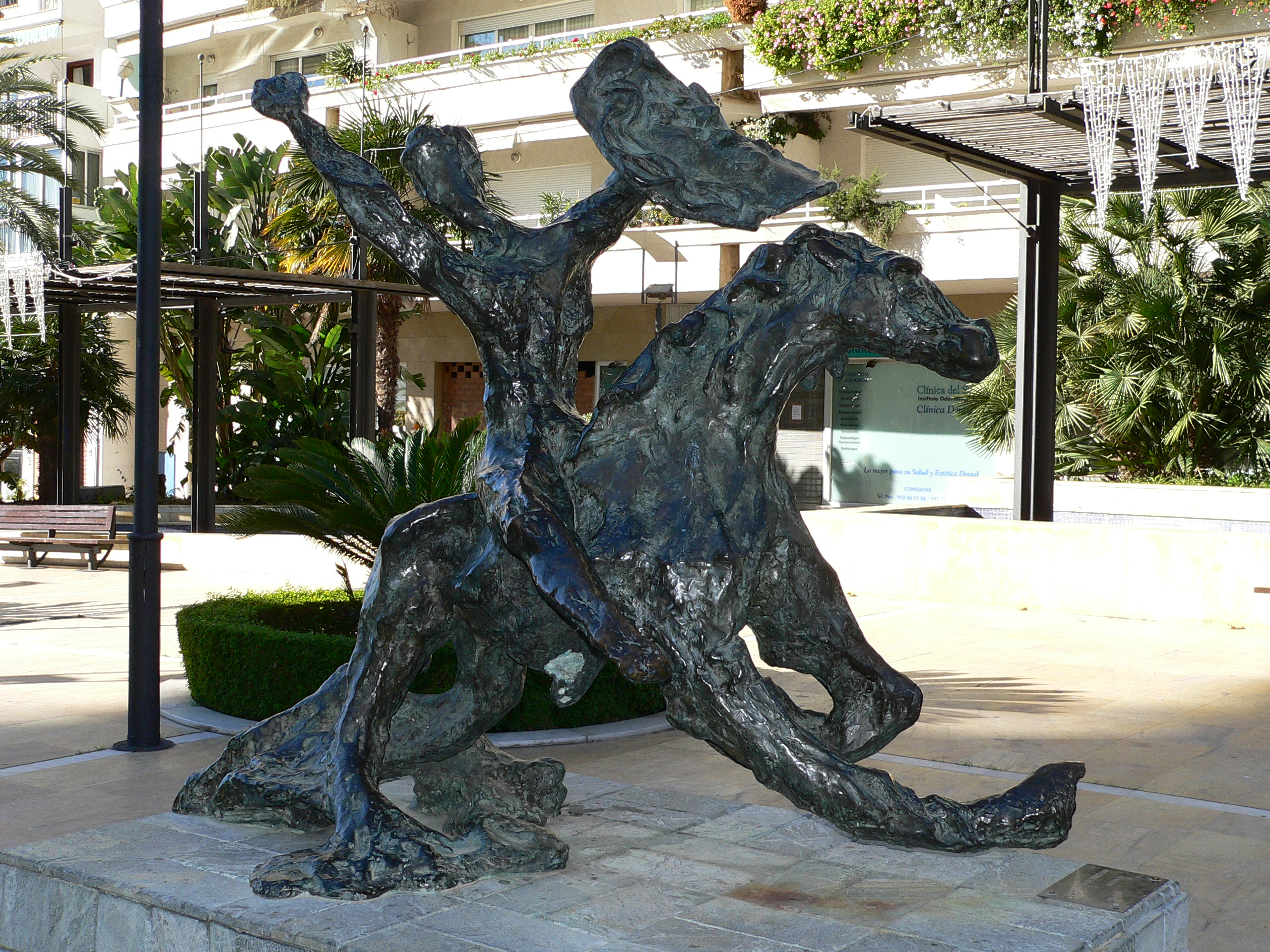 Description: Caballo con jinete tropezando Subject: Sculpture Artist : Salvador Dalí City : Marbella Country : Spain Photographer: © Manuel González Olaechea y Franco Shot date : January, 3rd, 2006